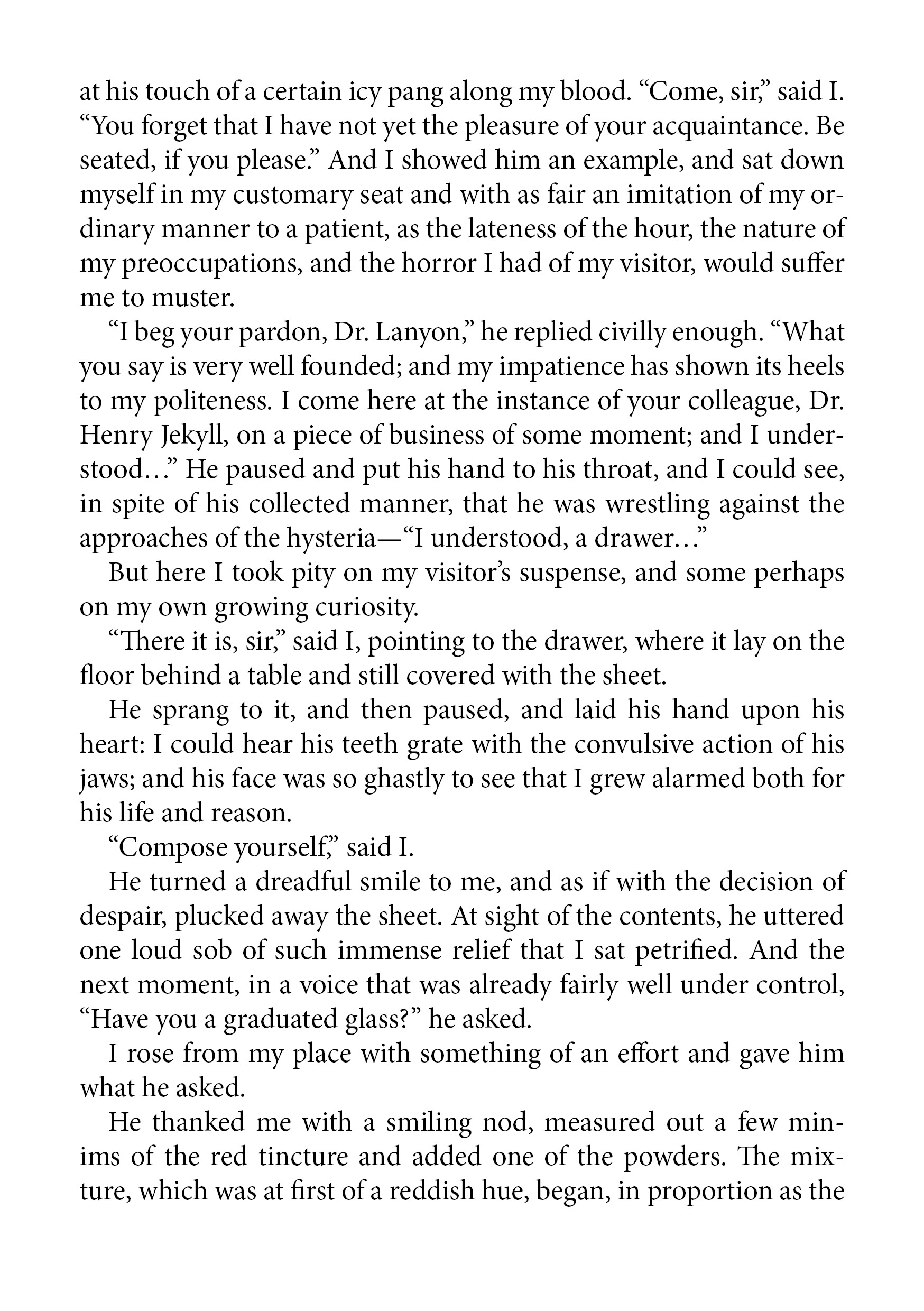 Text from the book "Dr. Jekyll and Mr. Hyde" by Robert Louis Stevenson. Published in 1886. Stevenson died in 1894, so the copyright has expired.